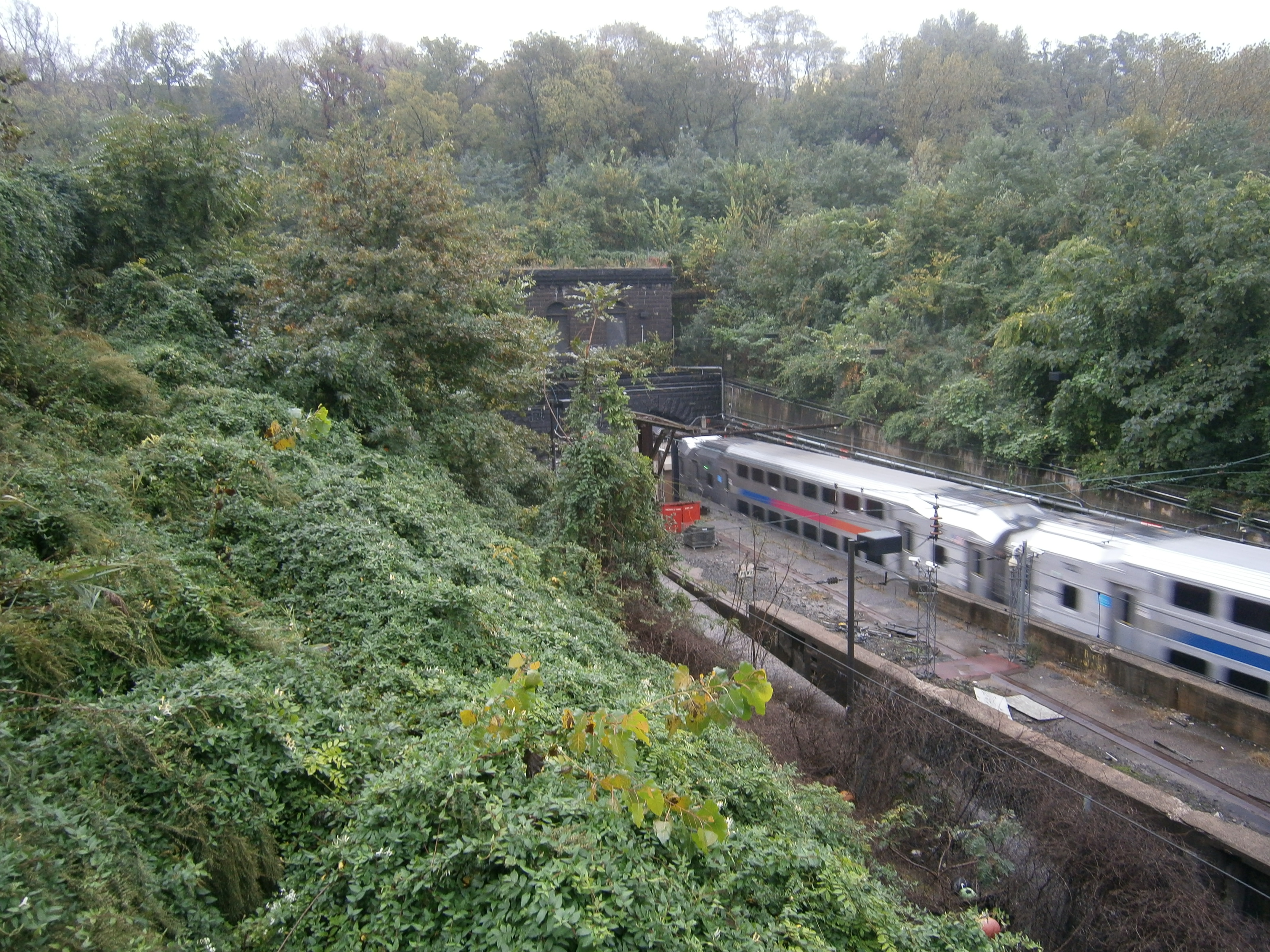 Northeast Corridor at western slope of the Hudson Palisades before entering the North River Tunnels